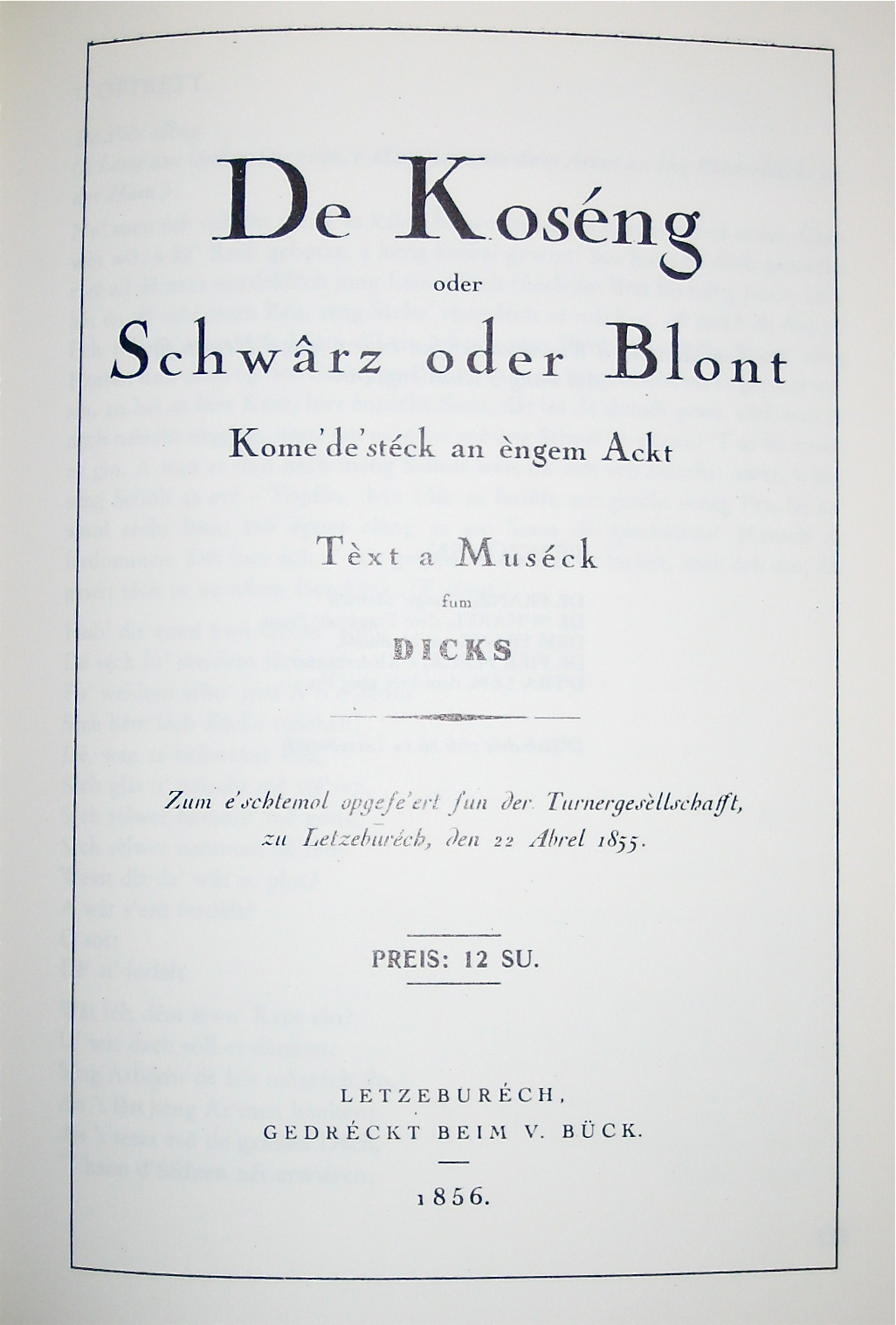 Cover of "De Koséng" by Edmond de la Fontaine (1823-1891) - facsimile